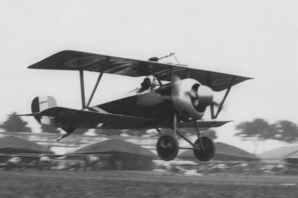 Early Nieuport 17 at Le Bourget on 18 July 1916 making demonstration flight for British delegation